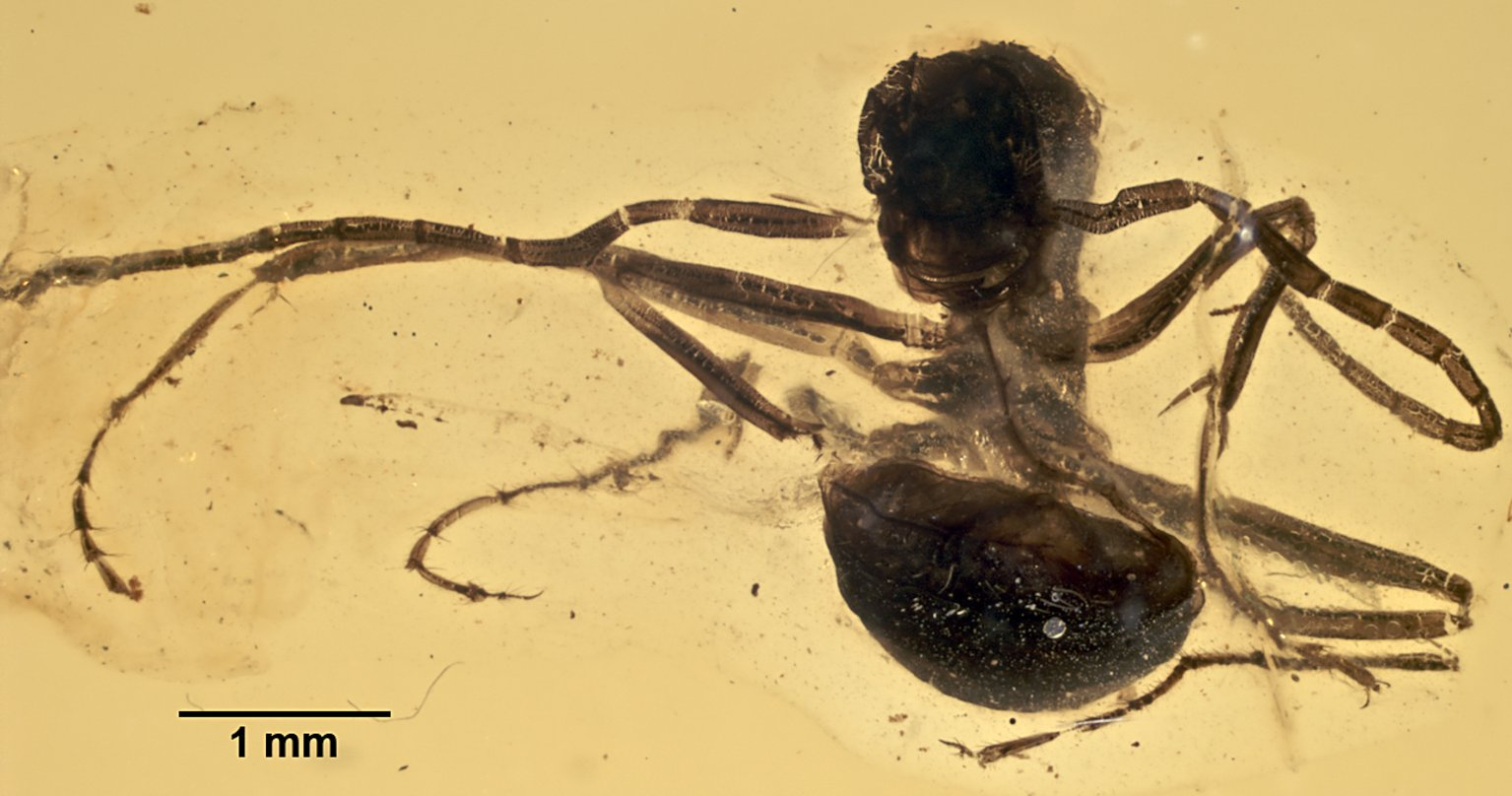 Ventral view of the Gerontoformica cretacica holotype specimen, MNHNA30088. Charentese amber, France, Albian-Cenomanian (100 million years old)